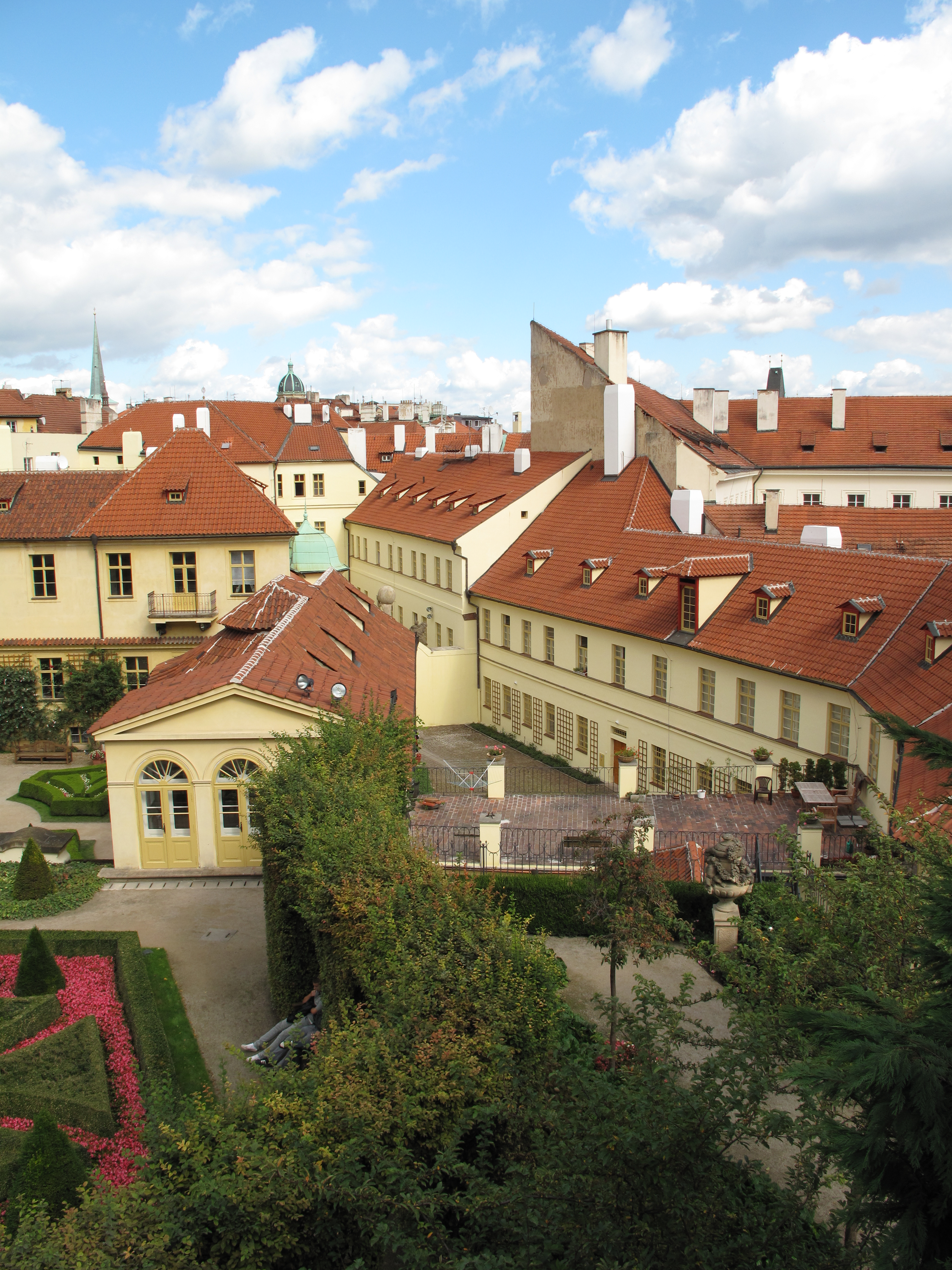 Mikuláš Aleš ateliér (to the left) and Vrtba palac (to the right) makes a small trail, former road from actual Karmelitánská Street to the vineyards in Petřín. Prague, Lesser Quarter, Czech Republic.